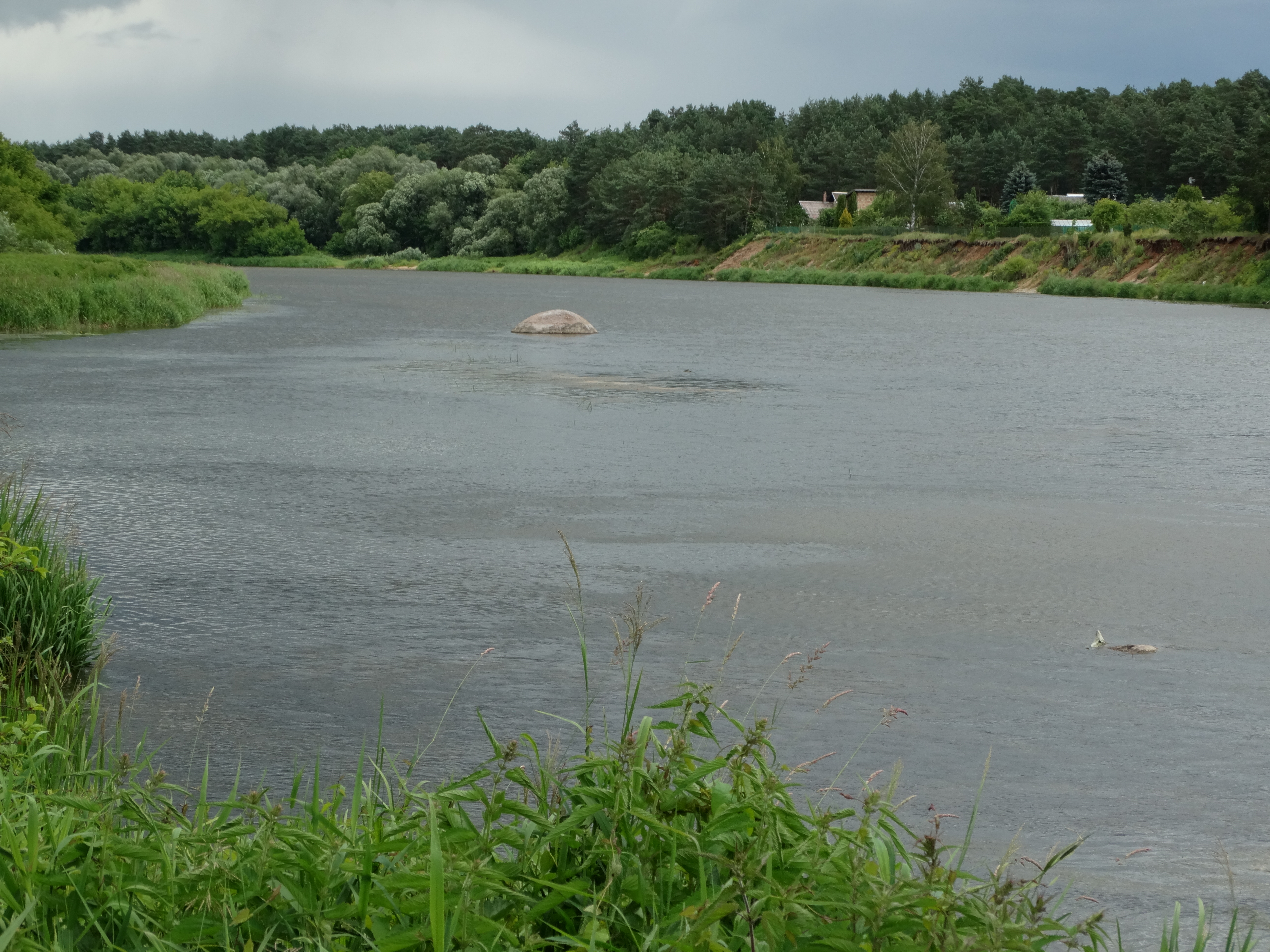 Boulder in Neris river, Mykoliškiai, Jonava district, Lithuania